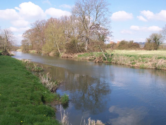 River Beult This river eventually leads into the River Medway, at Yalding.